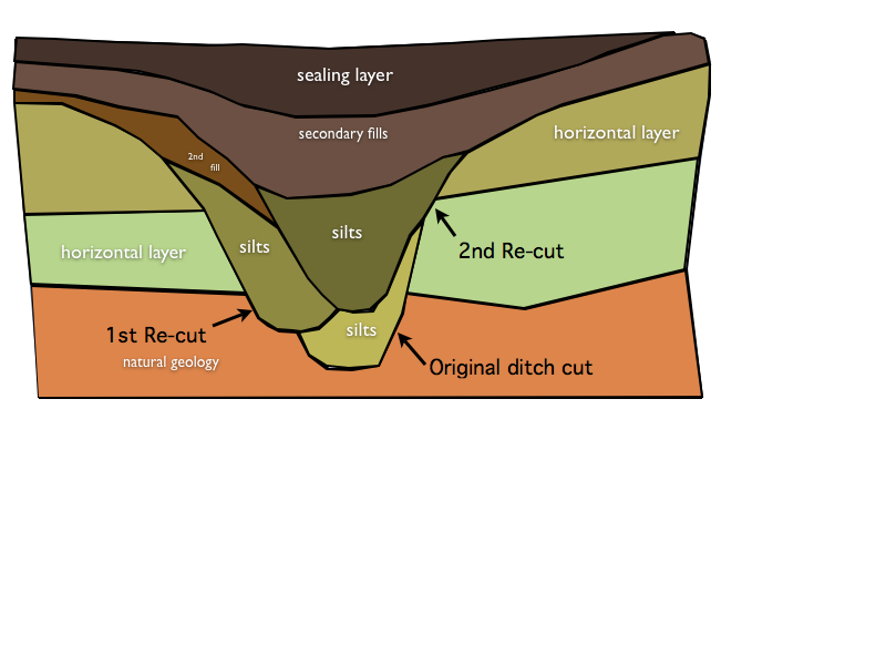 graphic